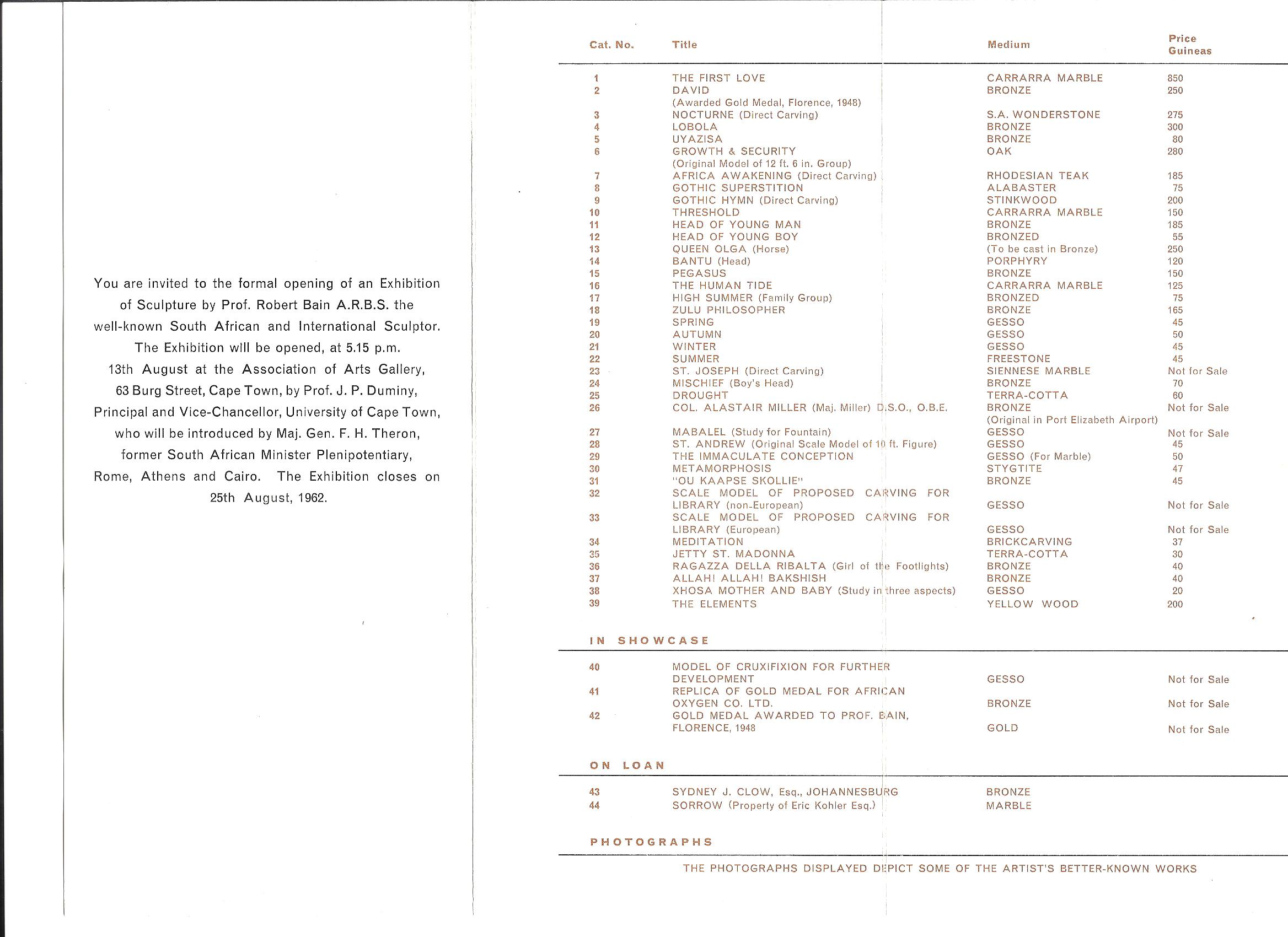 The catalogue for Prof. Robert Bain's Exhibition in August 1962. Proof of his Gold Medal at the Florence (see underneath no.2 - David).